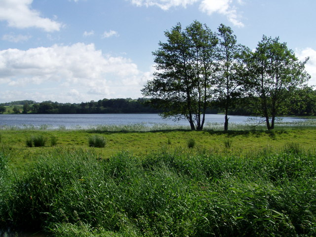 Acton Lake on the Newry Canal.